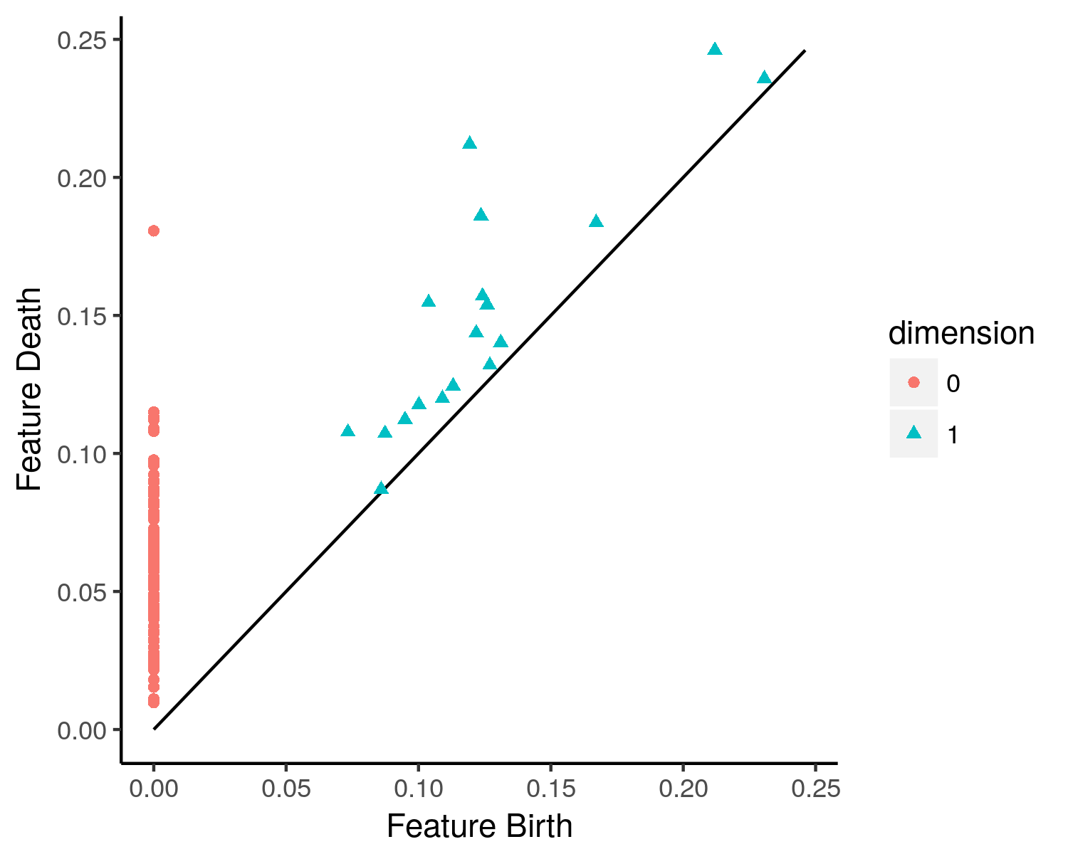 Persistence diagram for a set of 100 points uniformly distributed within a 2-dimensional unit square. None of the 0-cycles or 1-cycles are considered true signal (none truly exist within a unit square point cloud). Although some features appear to persist, the axis ticks show that the most persistent feature persists for less than 0.20 units, which is relatively small for a point cloud on a unit square. This persistence diagram was created using the TDAstats R package.